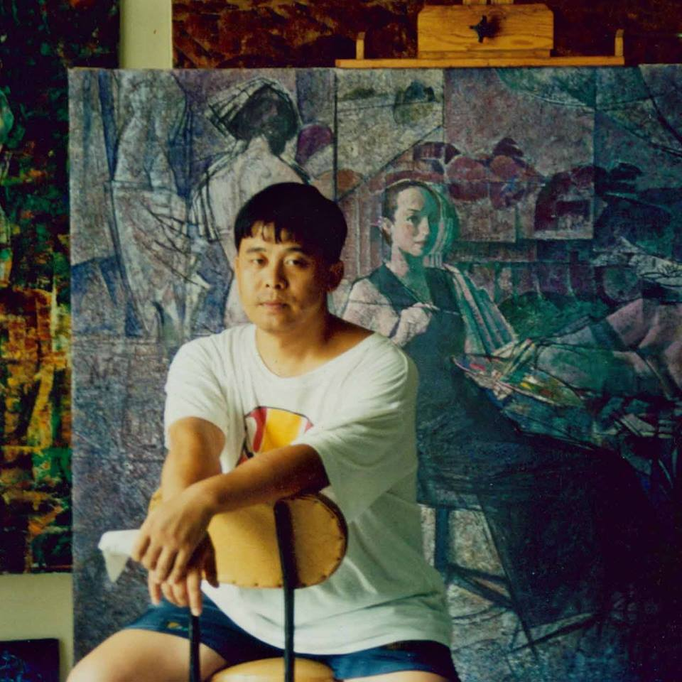 Artist Chan at his art studio in 2008